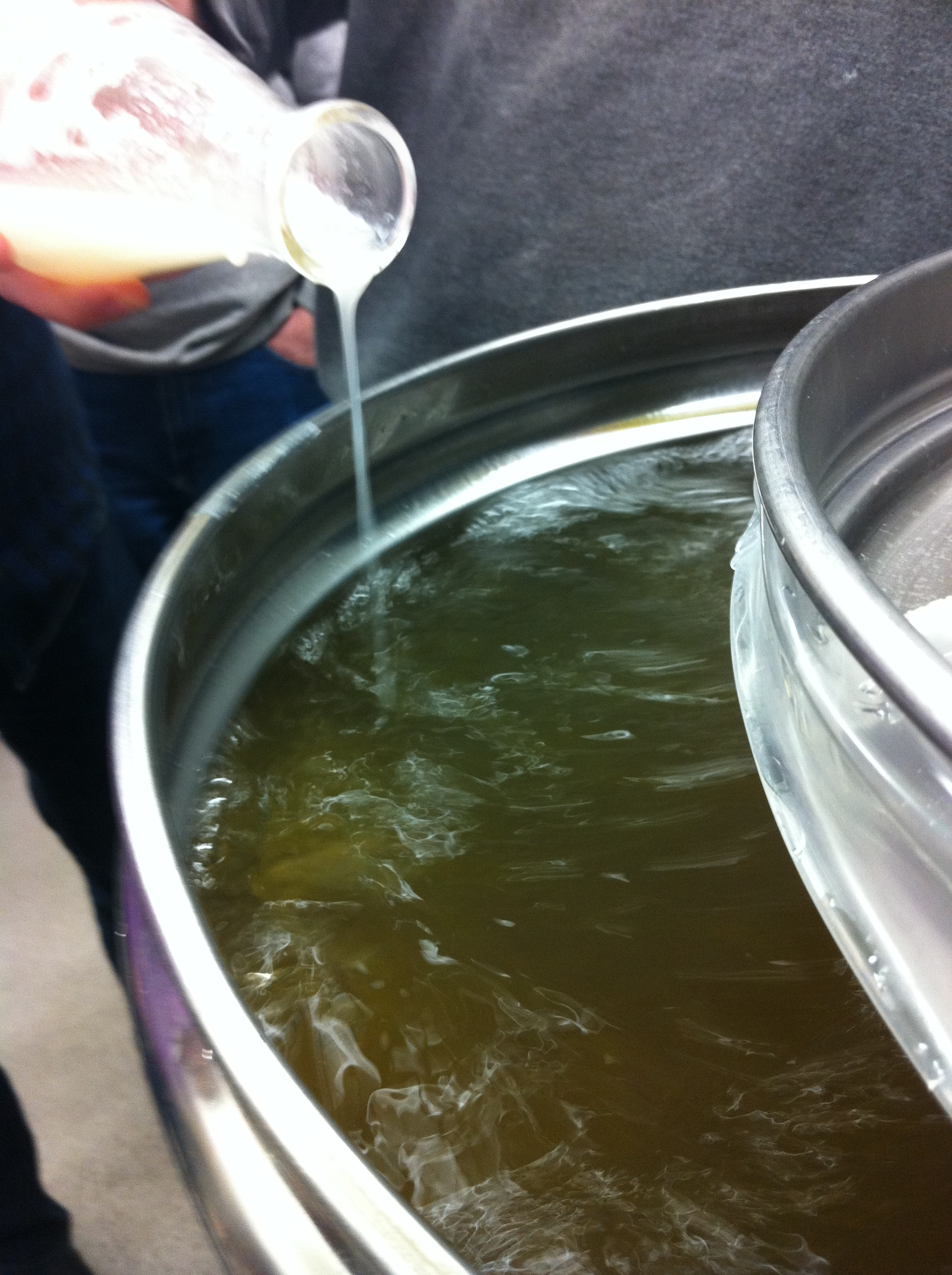 Isinglass fining agent being added to a tank of Semillion to aid in the clarity and stability of the wine.